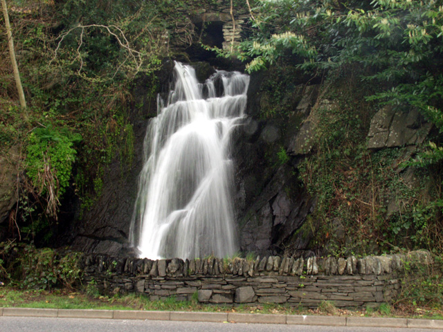 Roadside Waterfall. Just across the Afon Conwy from Betws y Coed is this waterfall cascading down.